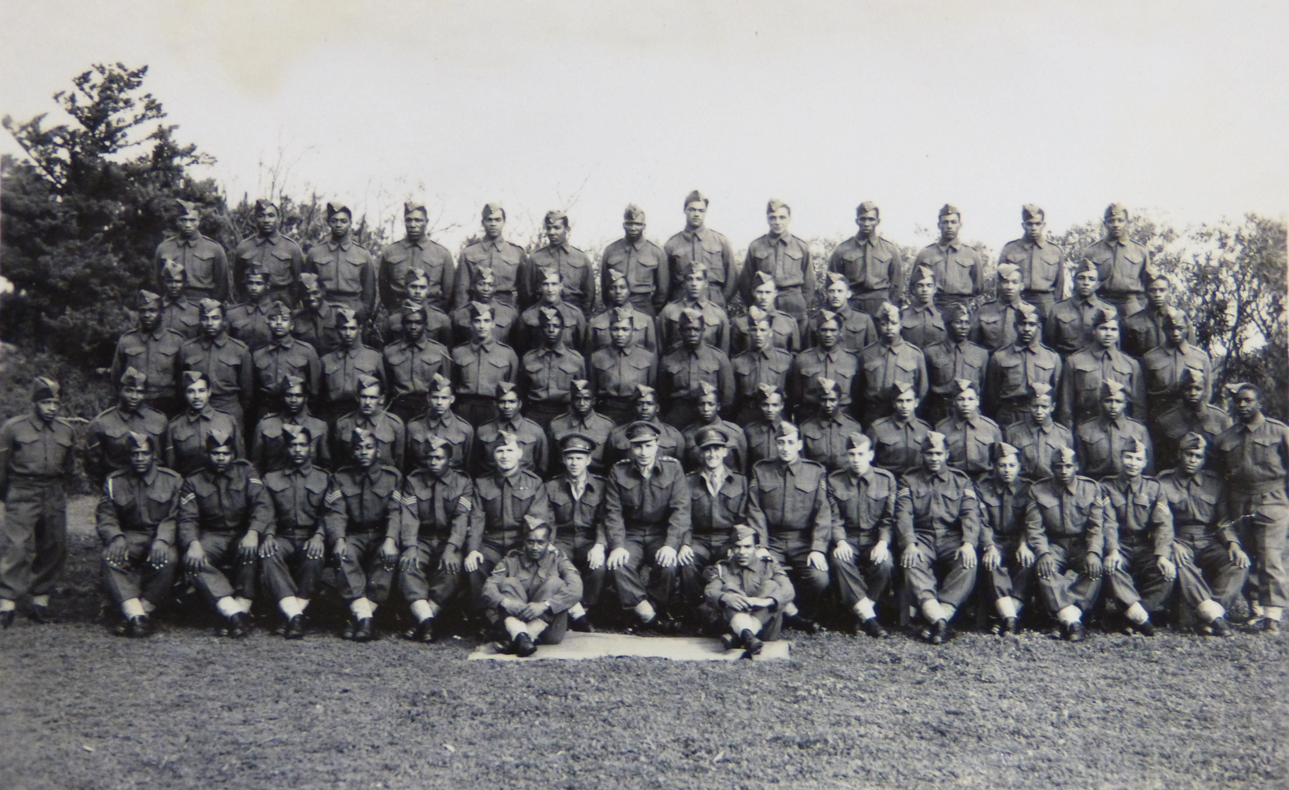 B Company Bermuda Militia Infantry in 1944, based at Prospect Camp.